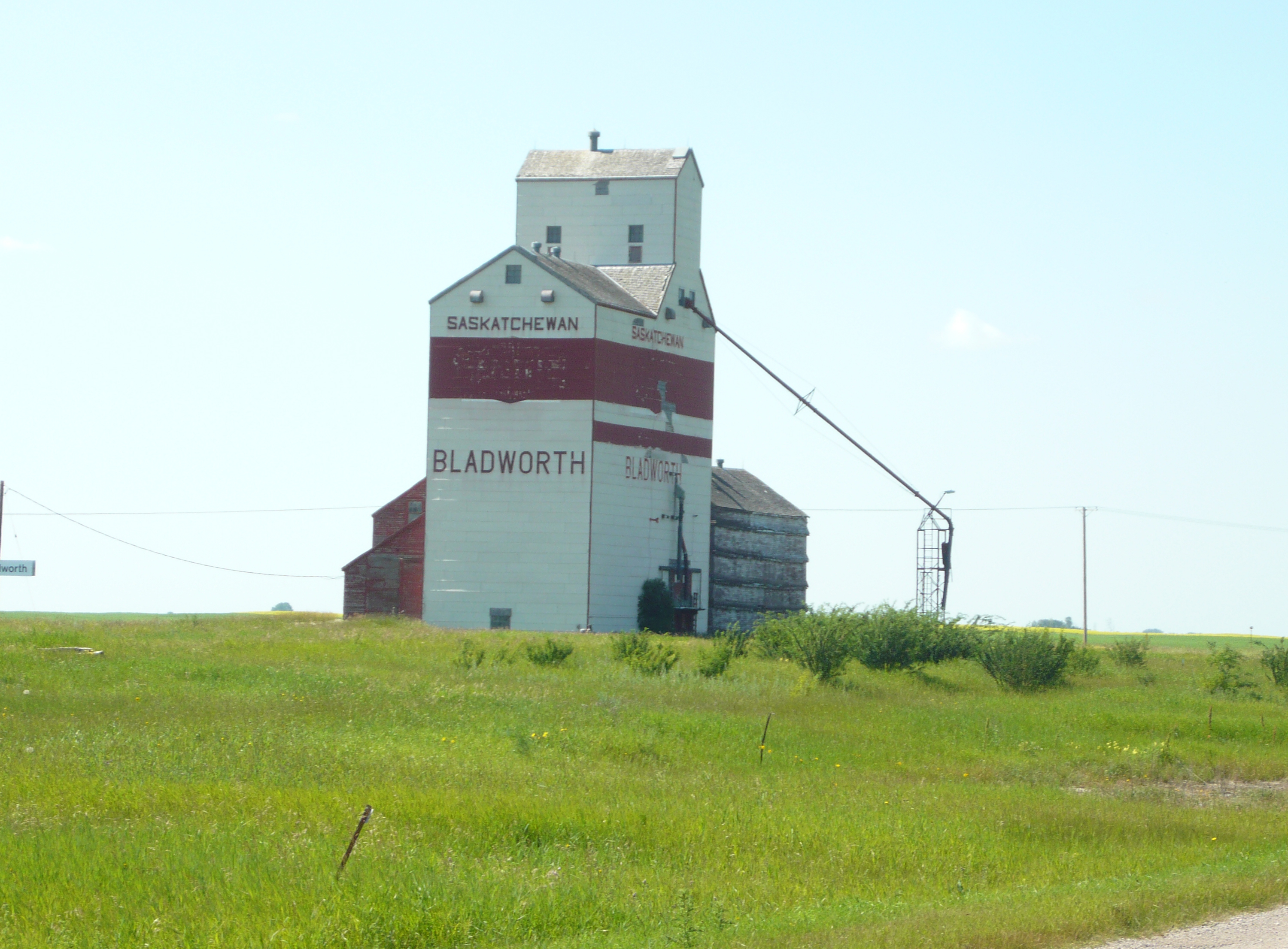 Grain elevator at Front Street, Bladworth, Saskatchewan, Canada.